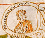 Frederick II, Duke of Swabia